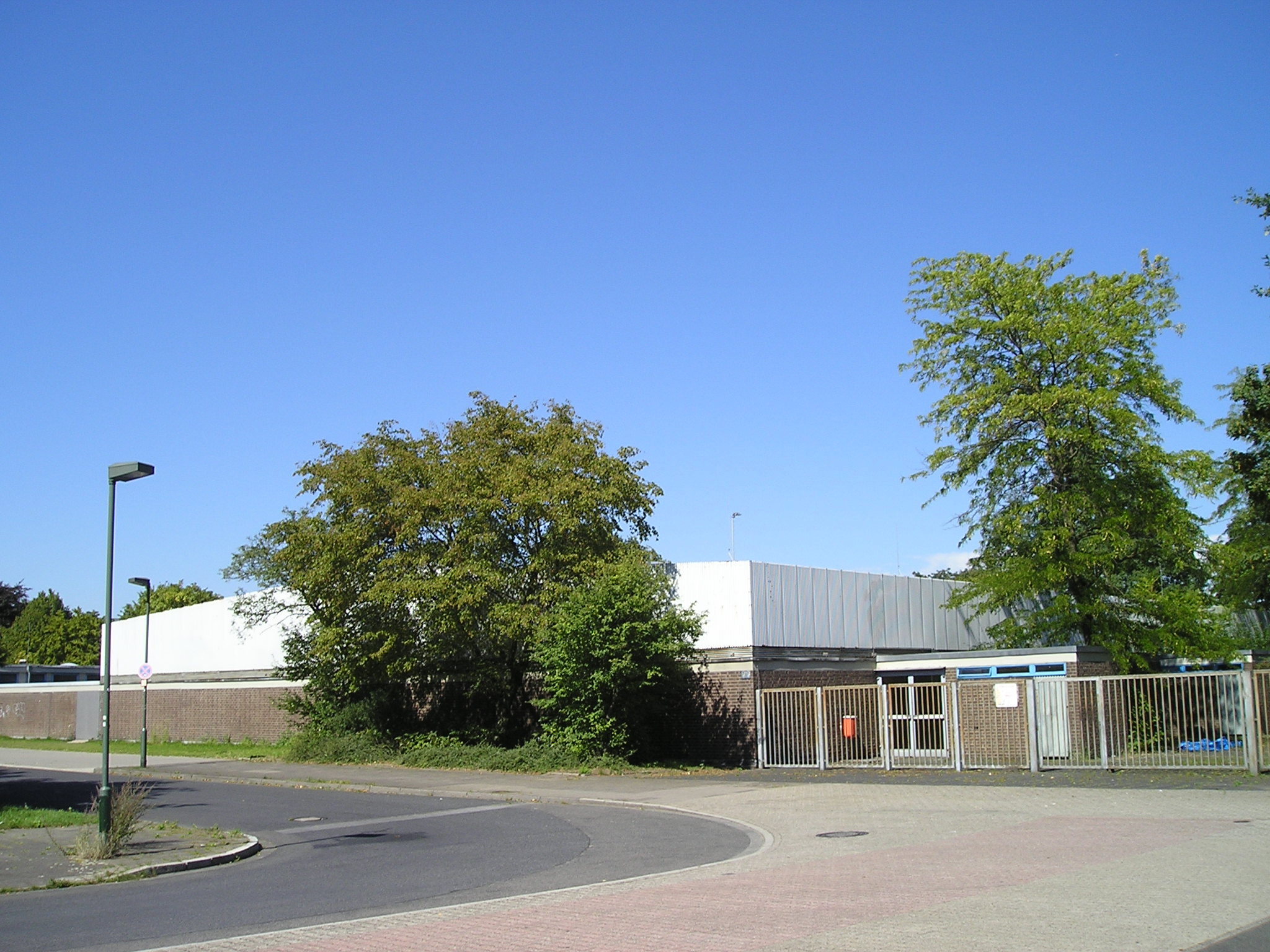 gymnasium of the Gymnasium Koblenzer Straße and the Theodor-Litt-Realschule in Düsseldorf